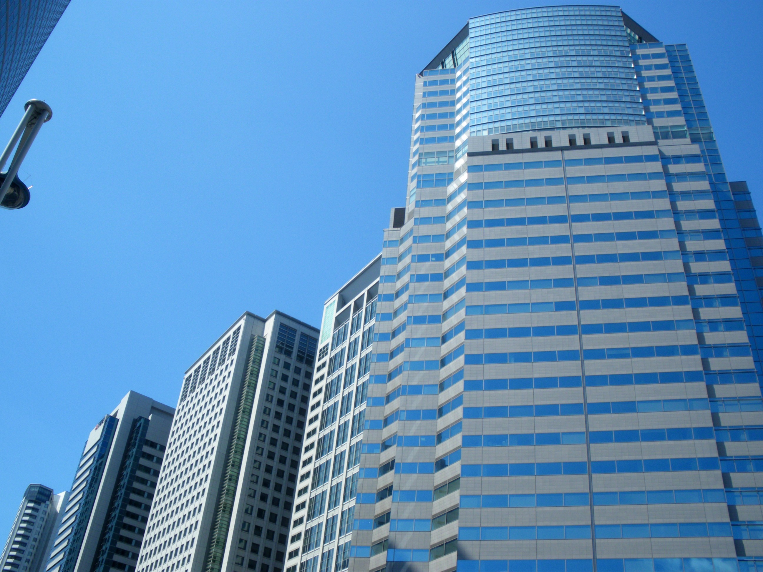 A photo of an overview of Shinagawa Grandcommons(high-rises in front of Shinagawa station.)